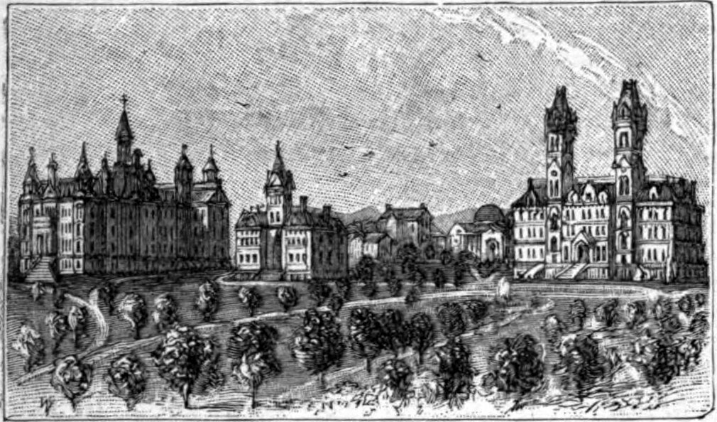 Drawing of the campus of Vanderbilt University - this seems the most reasonable identification; it isn't identified explicitly in the article